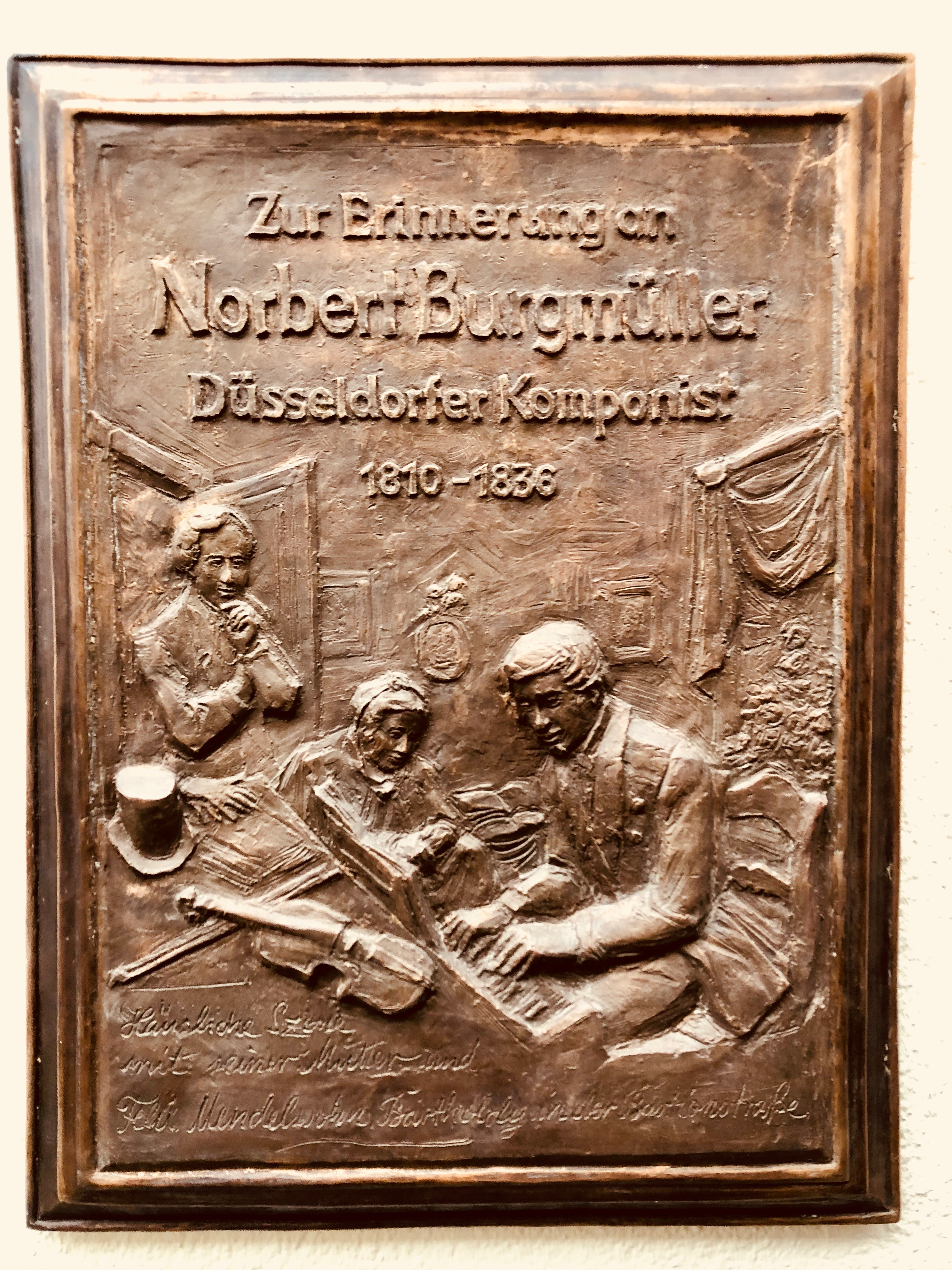 Memorial plaque for the composer Norbert Burgmüller in Dusseldorf, Bastionstrasse